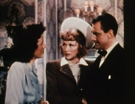 L. to R. : Molly Lamont, Joyce Compton, and Douglas Fowley in Scared to Death (1947) - trailer (cropped screenshot)